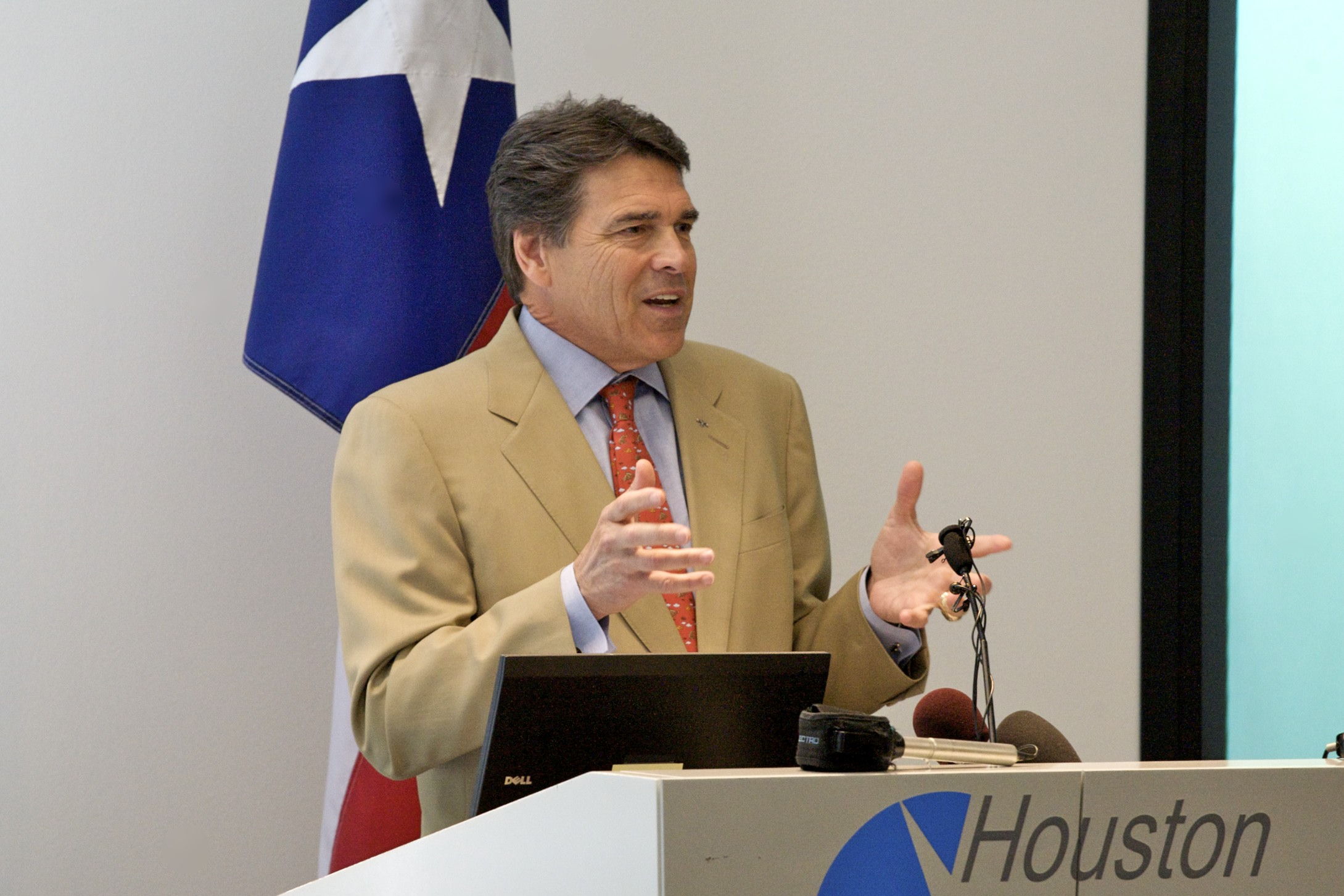 Wow, what to do with Rick Perry . He was at a high point in this photo, deservedly so, speaking at the Houston Technology Center regarding the Emerging Technology Fund . A very pro business job creation program of investment in Texas. Yet he is also the man behind the Texas Business Income Tax , a large business tax increase euphemistically called a "Franchise Tax". Sigh. I've chewed on this bone before, my main issue is I'm from Texas: so call it what it is. If I have to pay it, cool, but don't sugar coat it. The real Rick Perry is of course a politician. He has to be. He has many constituencies to please. Personally I'd like a humanitarian fiscal conservative leader. But neither party seems to be able to provide that. I wish....